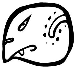 Maya:glyph:logogram:calendric:Tzolkin:Day12:Eb:codex+W:v01. Img created by CJLL Wright.